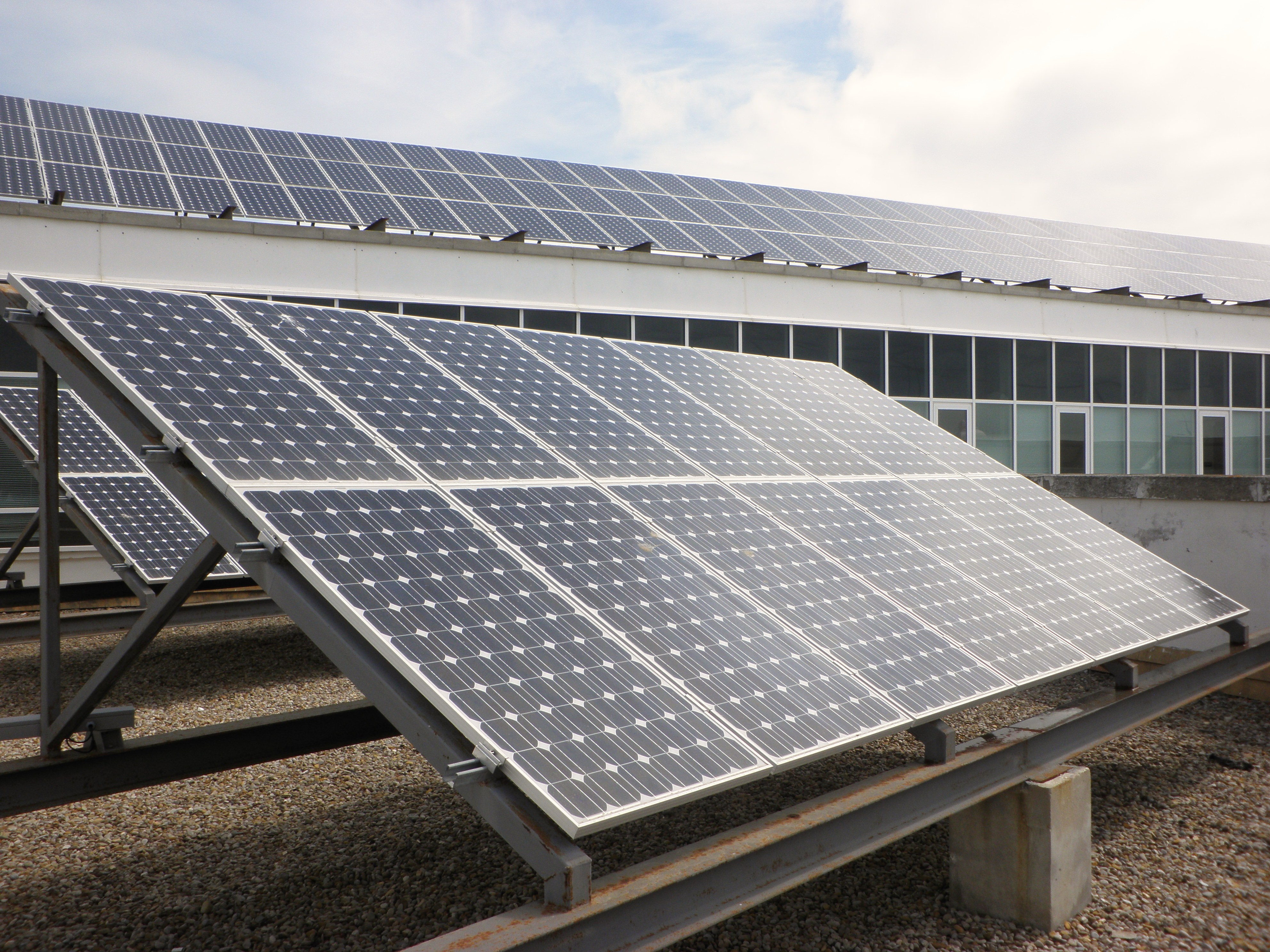 Solar cell panels in the University of Cádiz, Spain.